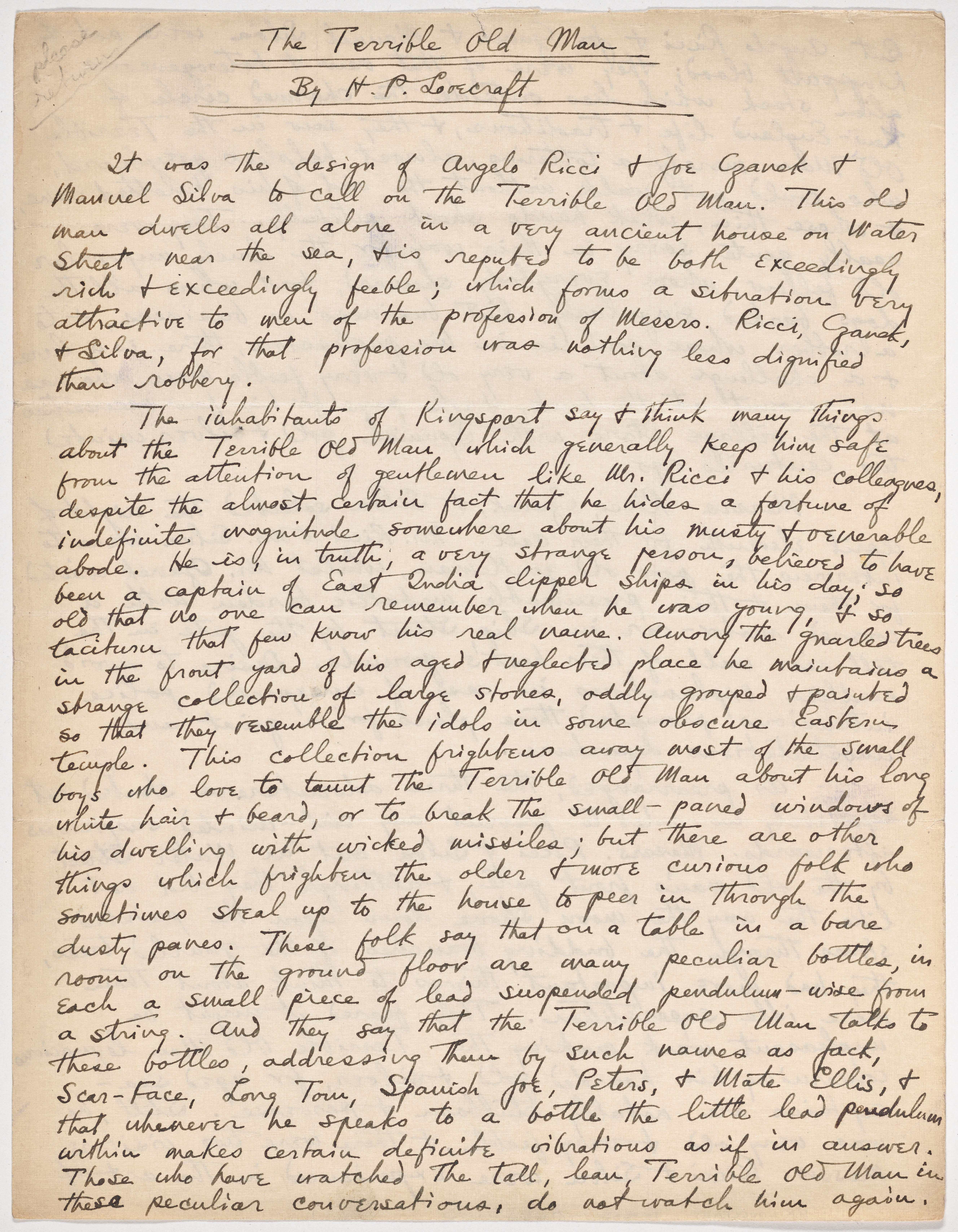 First page of the manuscript The Terrible Old Man.